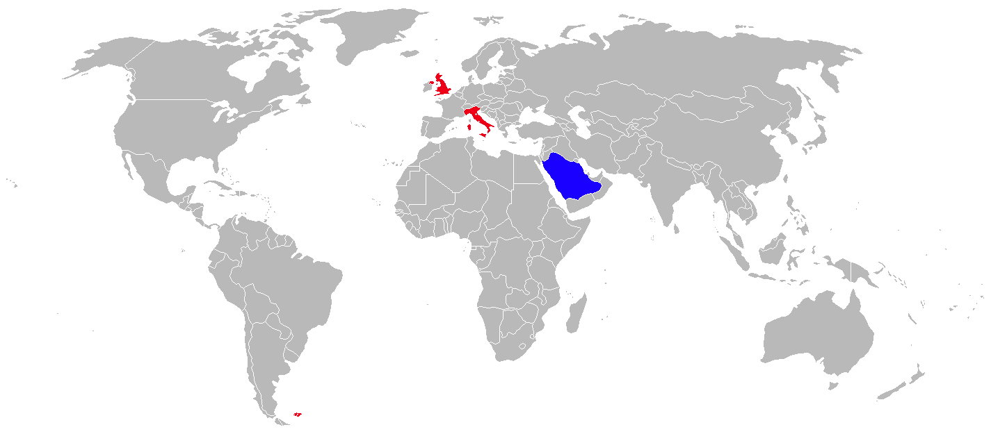 Panavia Tornado ADV Operators 2010 (former Operators in red)